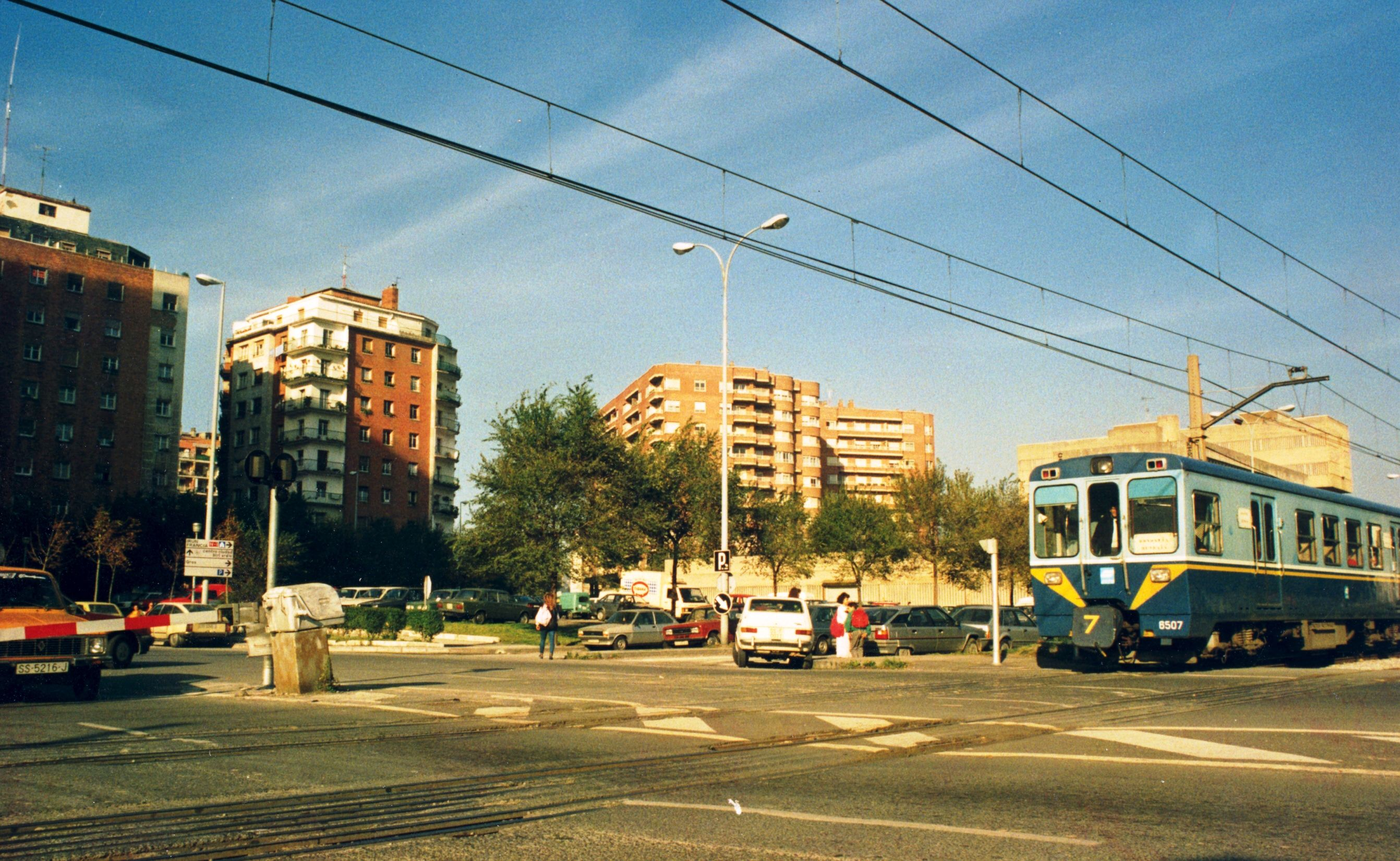 Train in Amara-Anoeta